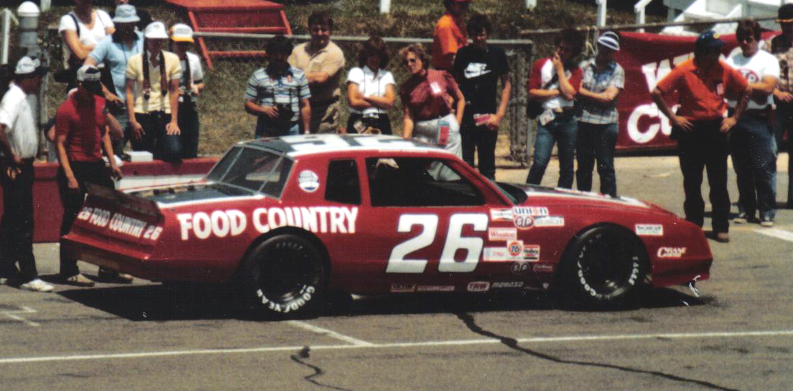 The Charlie Henderson owned Food Country #26 Chevy of Ronnie Hopkins finished 26th in the 1983 Van Scoy 500. Hopkins ran quite a few races in 1983, the only season he was active in the cup series.